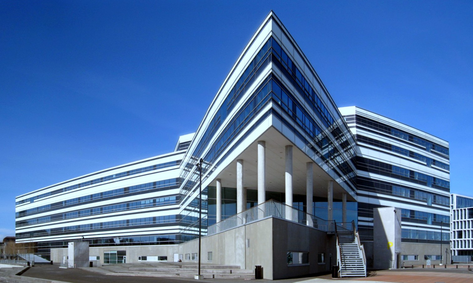 South-east facade